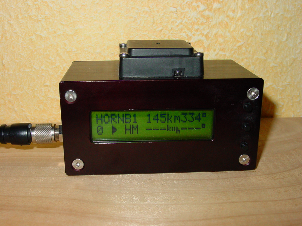 Volkslogger (old version): GPS-based flight recorder for gliding competitions